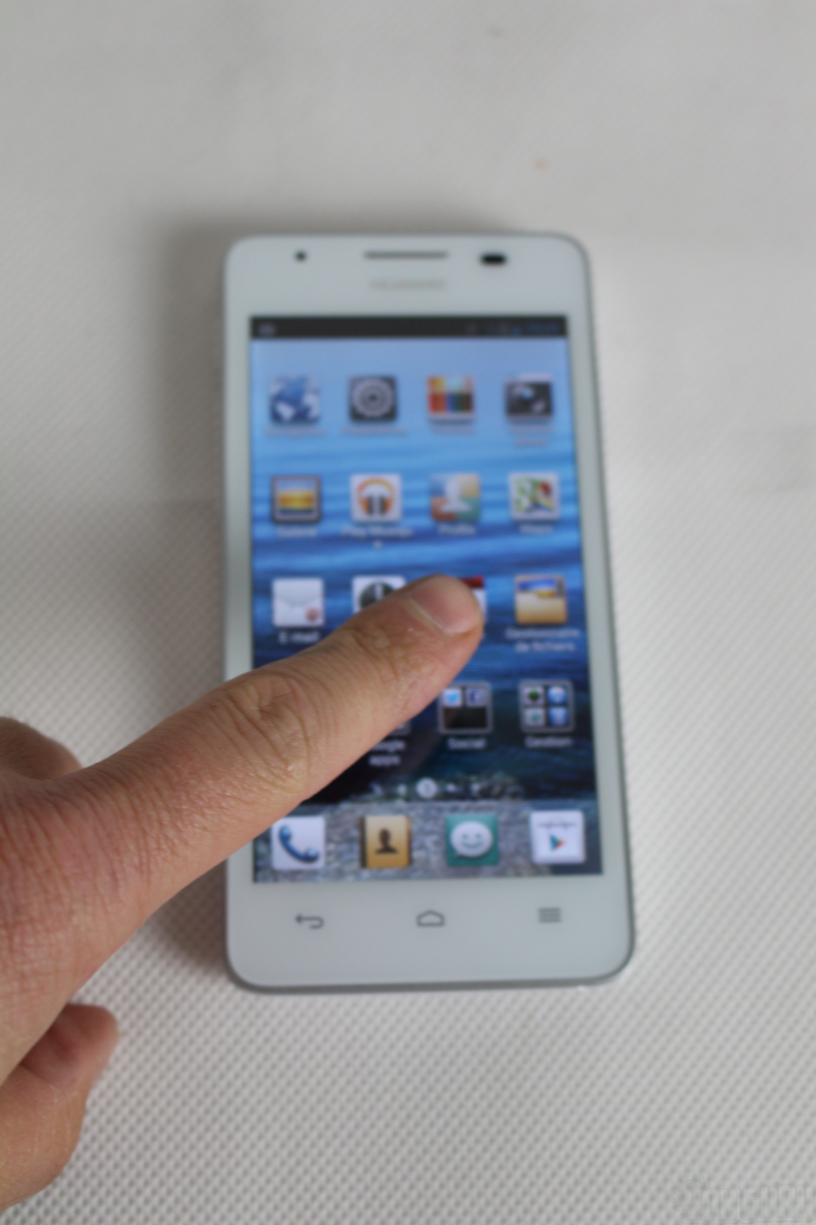 Android default wallpapers and icons of the smartphones, which is released under CC 2.5 Attribution. Portions of this page are reproduced from work created and shared by the Android Open Source Project and used according to terms described in the Creative Commons 2.5 Attribution License.